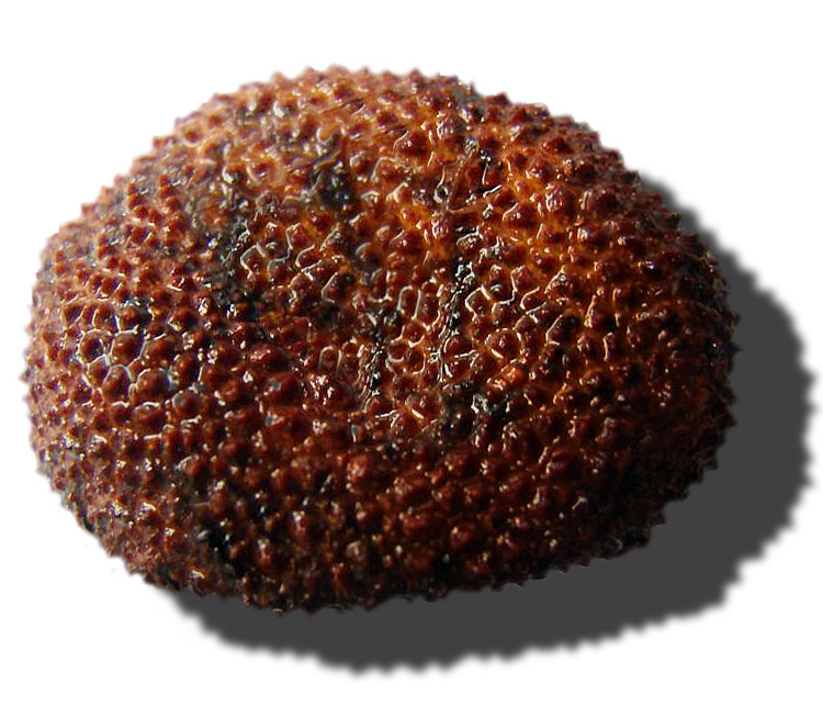 Elaphomyces granulatus, or "Hart's Truffle" ou de "False Truffle"